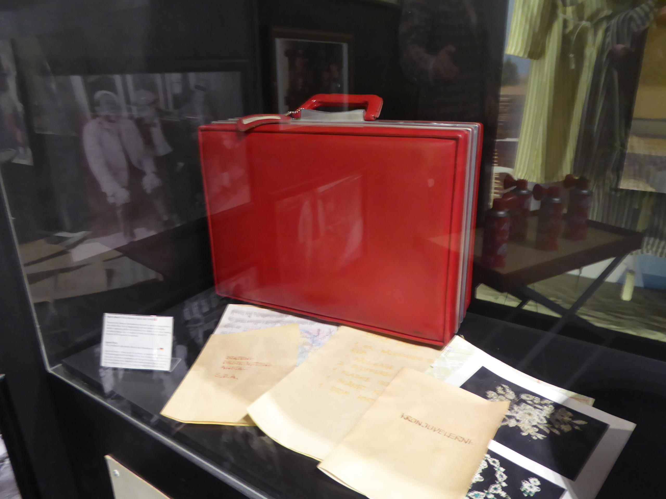 Red suitcase from the Danish Olsen-banden film series in a special exhibition at Nordisk Film in Copenhagen. In most of the movies the Olsen gang are hunting a red suitcase with money.